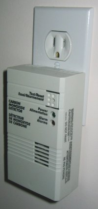 A CO (Carbon Monoxide) detector. Shown connected to a North American power outlet. This particular detector is for the Canadian market, so is labelled in both English and French. CO detectors, like smoke detectors, have prominent test buttons.